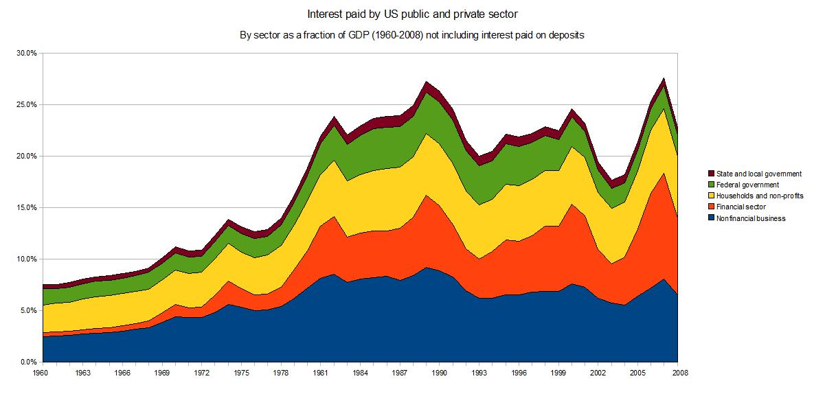 A graph showing interest payments as a fraction of GDP 1960-2008. Generated from interest payment data at [1] (US Department of Commerce) and GDP data from [2] (the Federal Reserve) This graph differs from File:Components-of-total-US-interest-payments.jpg in that it does not include interest paid on deposits, affecting financial sector series. This deduction is done to make the graph more consistent with [3], which shows credit market debt (which doesn't include bank deposits).